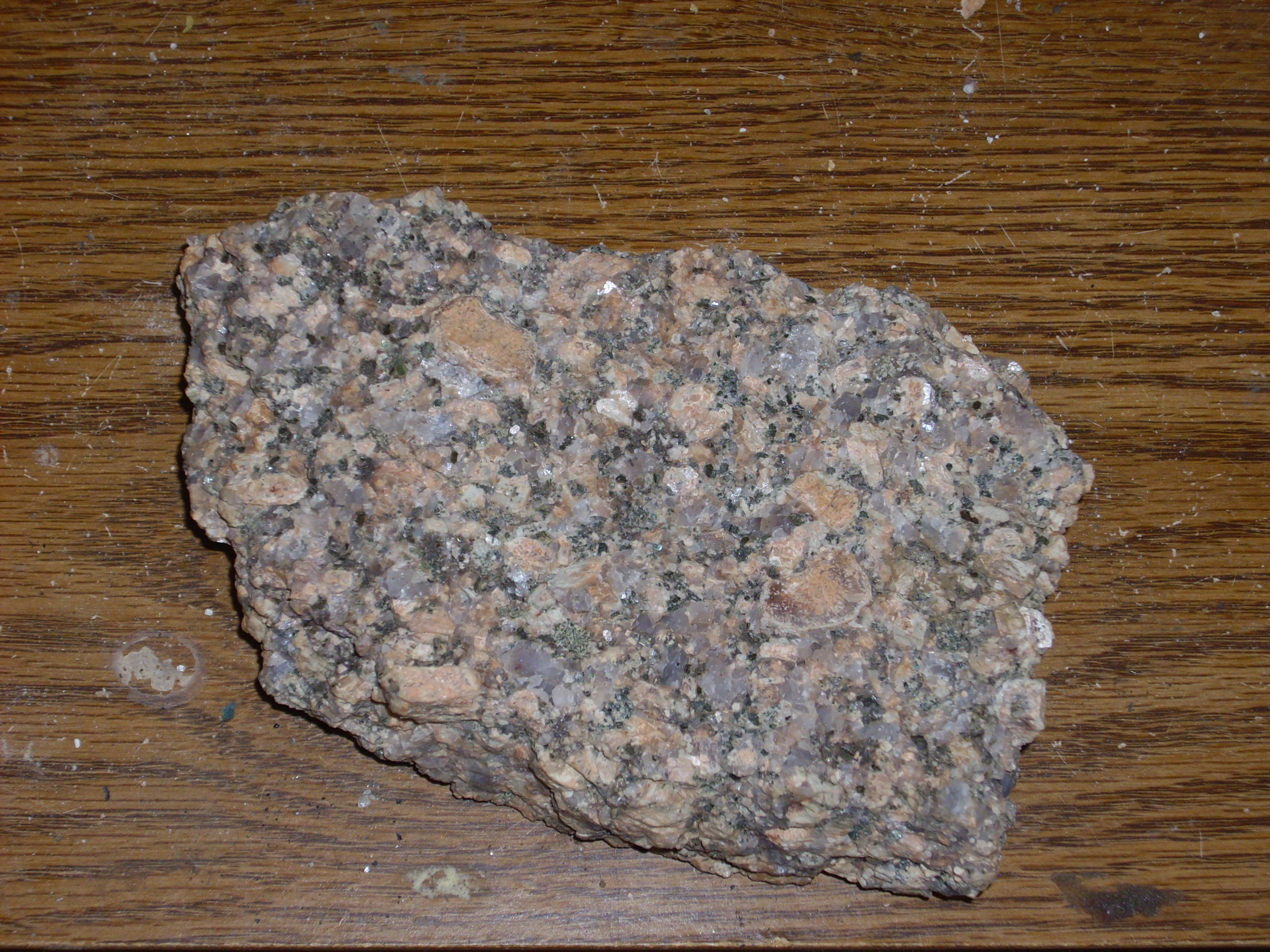 This image shows a sample of the San Pedro Quartz Monzonite, exposed in the San Pedro Mountains of New Mexico, USA. This monzonite has a radiometric age of 1730 million years and was likely part of an island arc that accreted to North American during the Yavapai Orogeny. The sample here shows rapakivi texture, in which oval potassium feldspar crystals have a oligoclase rim. This is particularly noticeable in the grain right of center.